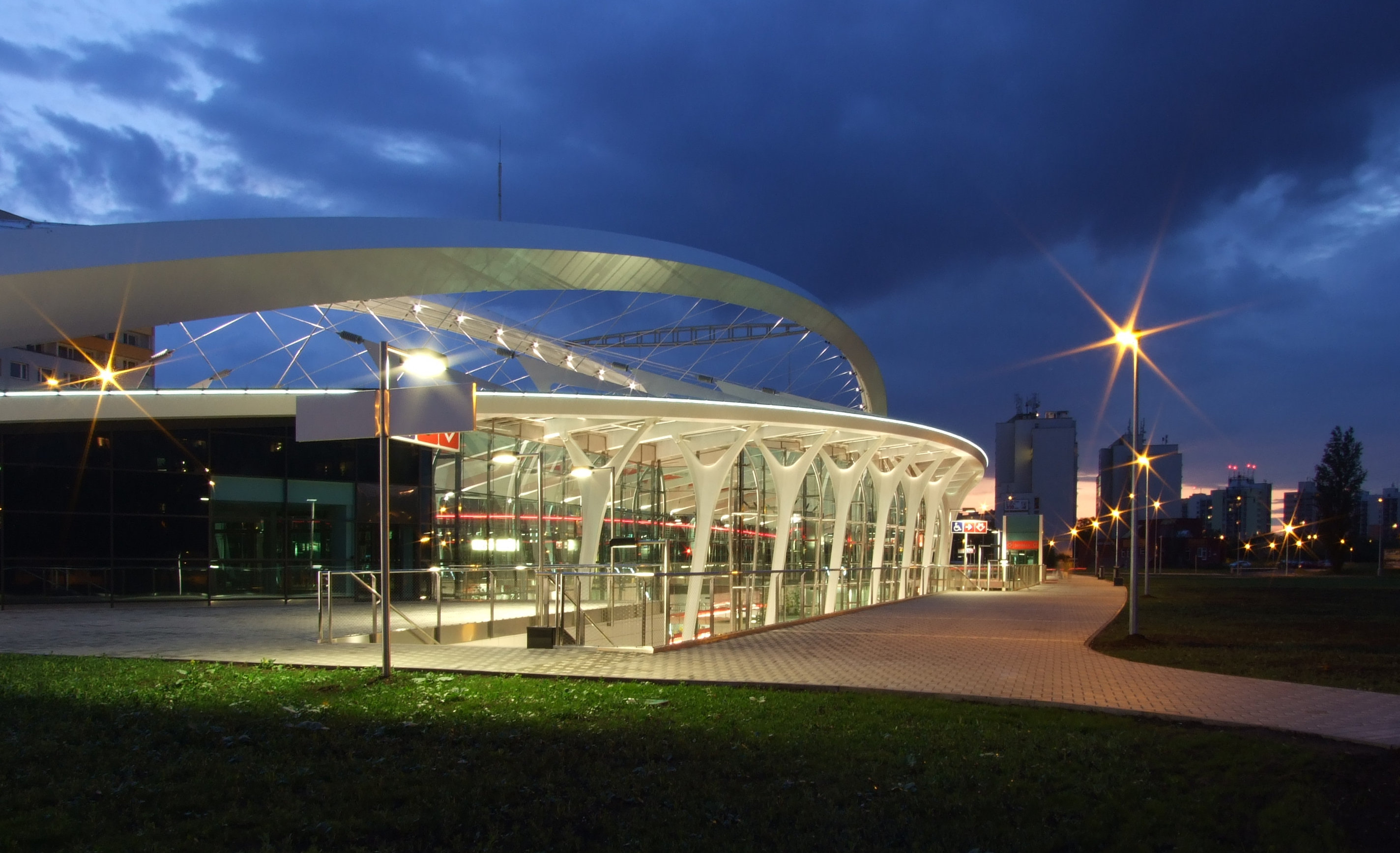 Střížkov metro station in Prague, several days after opening for publichelp